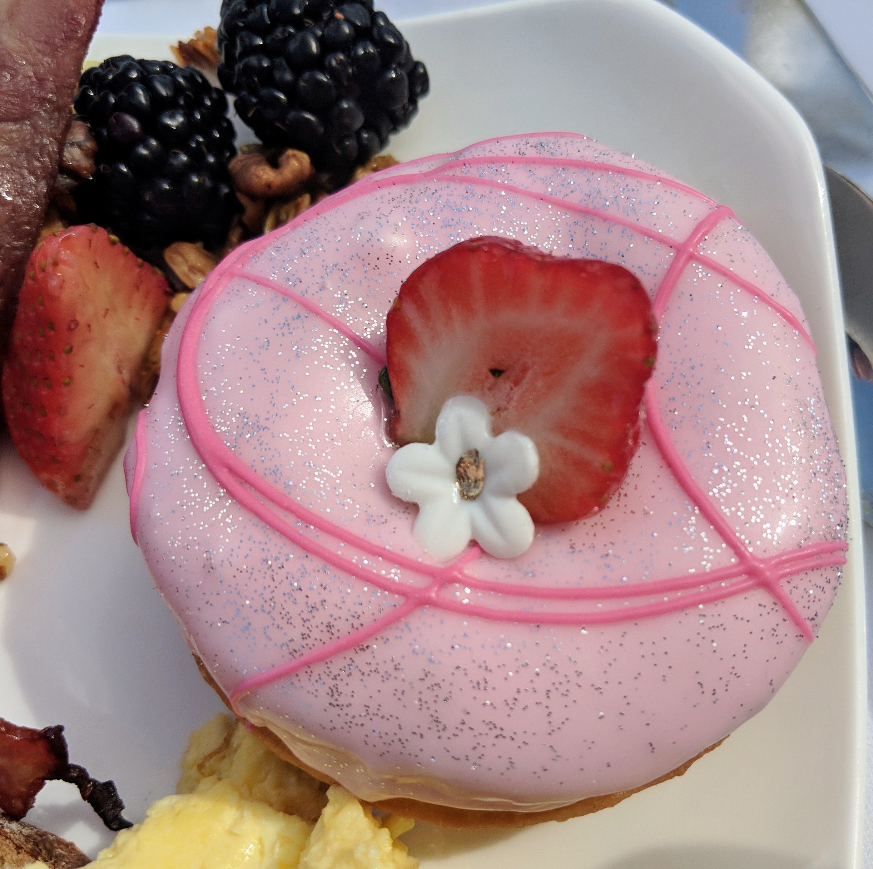 An elegant donut served at a wedding breakfast in Miami Beach, Florida. Photo by Jim Heaphy.